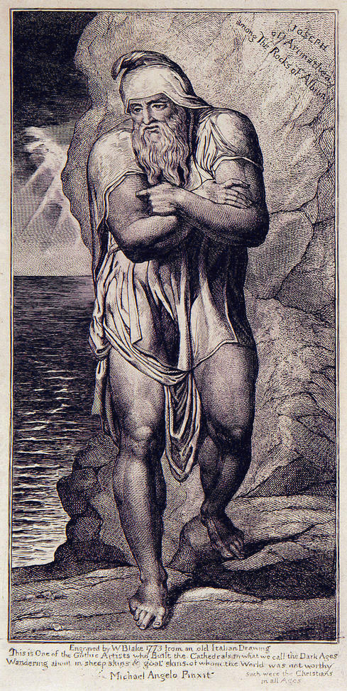 Joseph of Arimathea Among the Rocks of Albion - 2nd state of Blake's 1773 original, engraved circa 1809